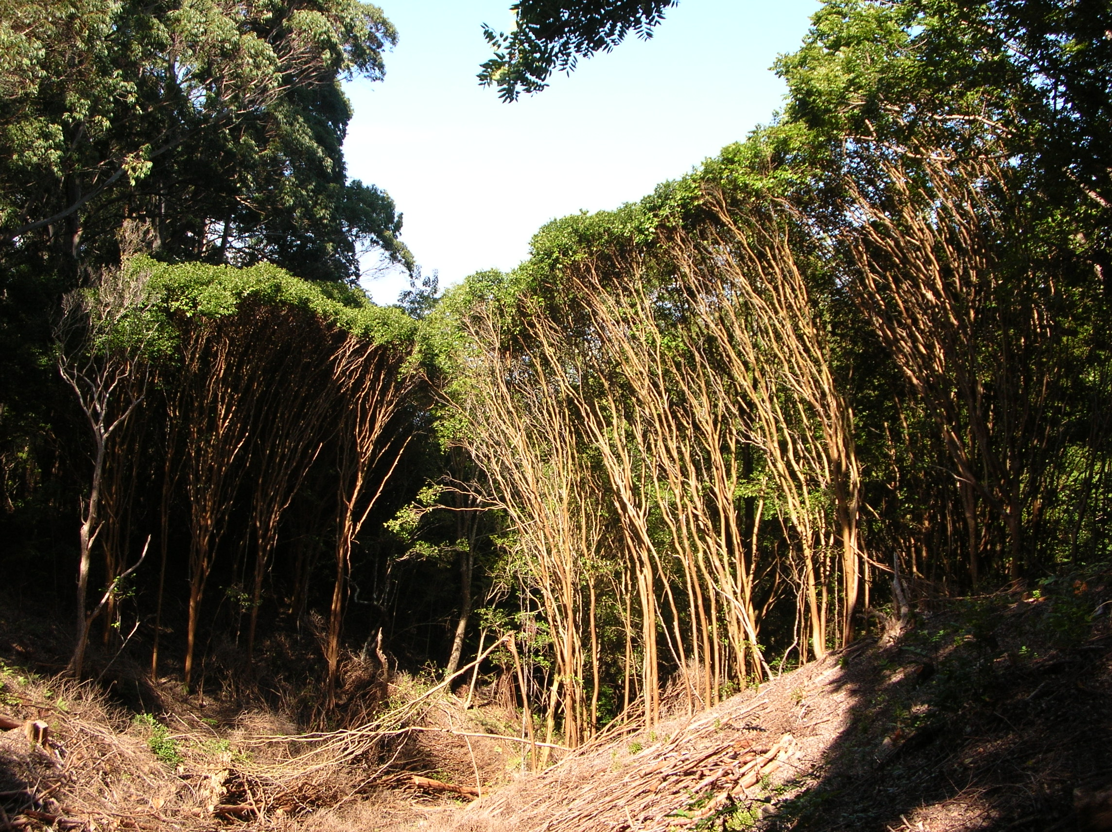 Psidium cattleianum (habit). Location: Maui, Makawao Forest Reserve